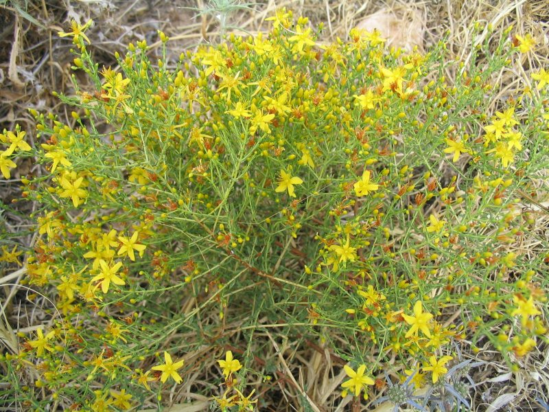 Hypericum triquetrifolium - near the coast of the Mediterranean Sea, Matam Industrial area, Haifa, Israel